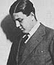 Magician Harry Houdini with Joaquín Argamasilla.